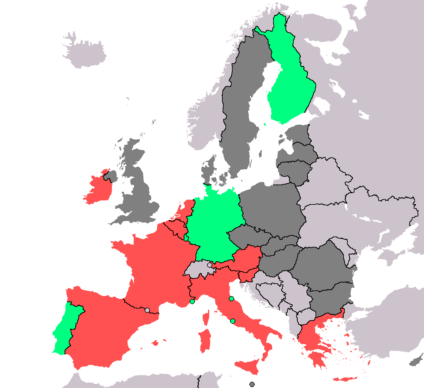 Where states was minting 2€ coins in 2007 (or will)